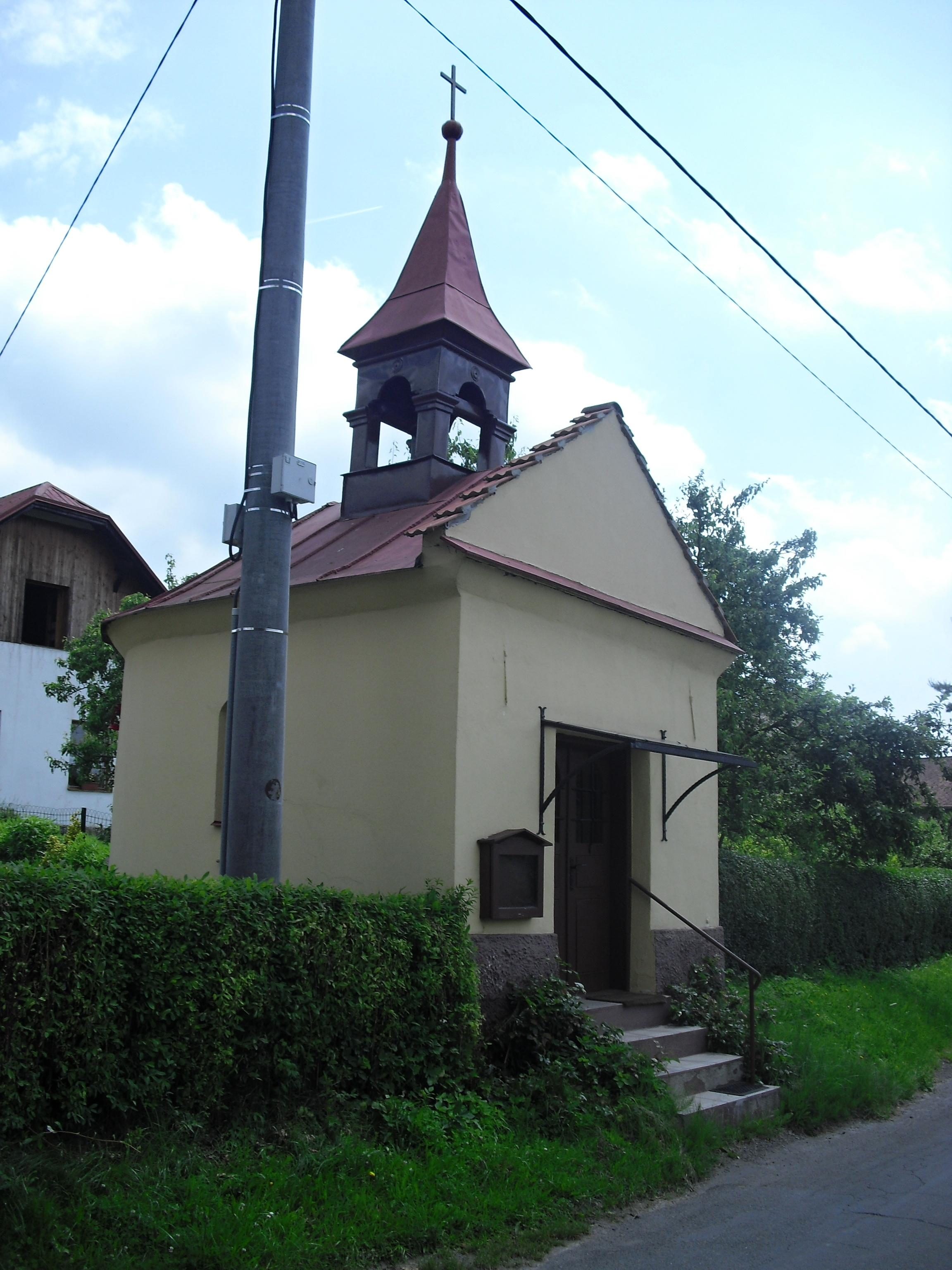 Odry, Nový Jičín District, Czech Republic, part Vítovka.